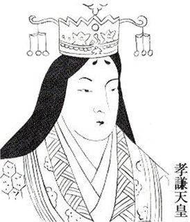 Portrait of Japanese Empress Kōken (孝謙天皇), also known as Empress Shōtoku (称徳天皇) (718-770)